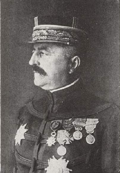 French marshall Louis Franchet d'Esperey, commander of Entente forces in the Balkans in World War I and responsible for the Belgrade armistice with Hungary.